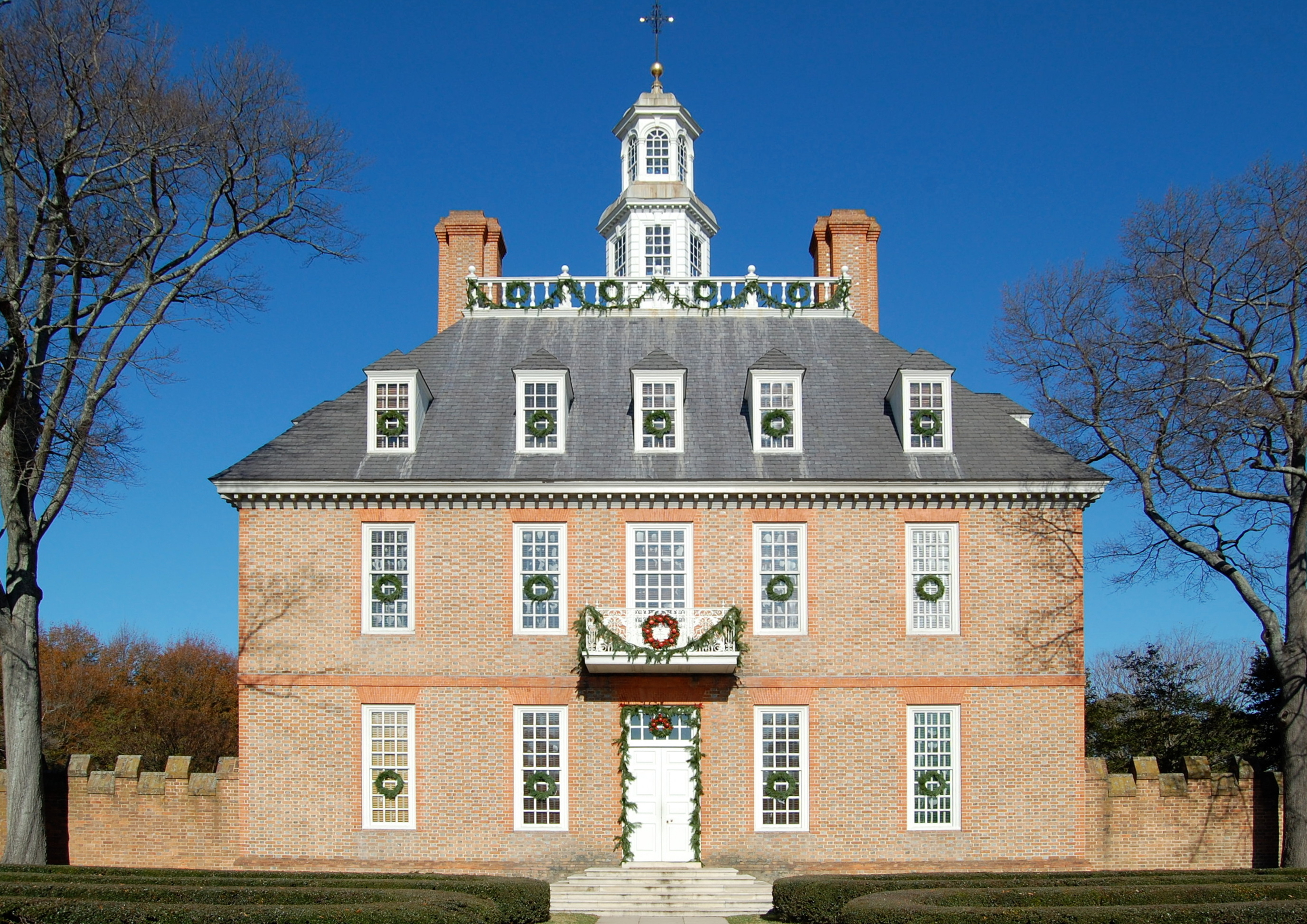 The main building of the Governor's Palace in Colonial Williamsburg. The original 18th century building was destroyed by fire and not rebuilt until the early 1930s. The perspective is looking in from the front gate, so several outbuildings are not shown. More images